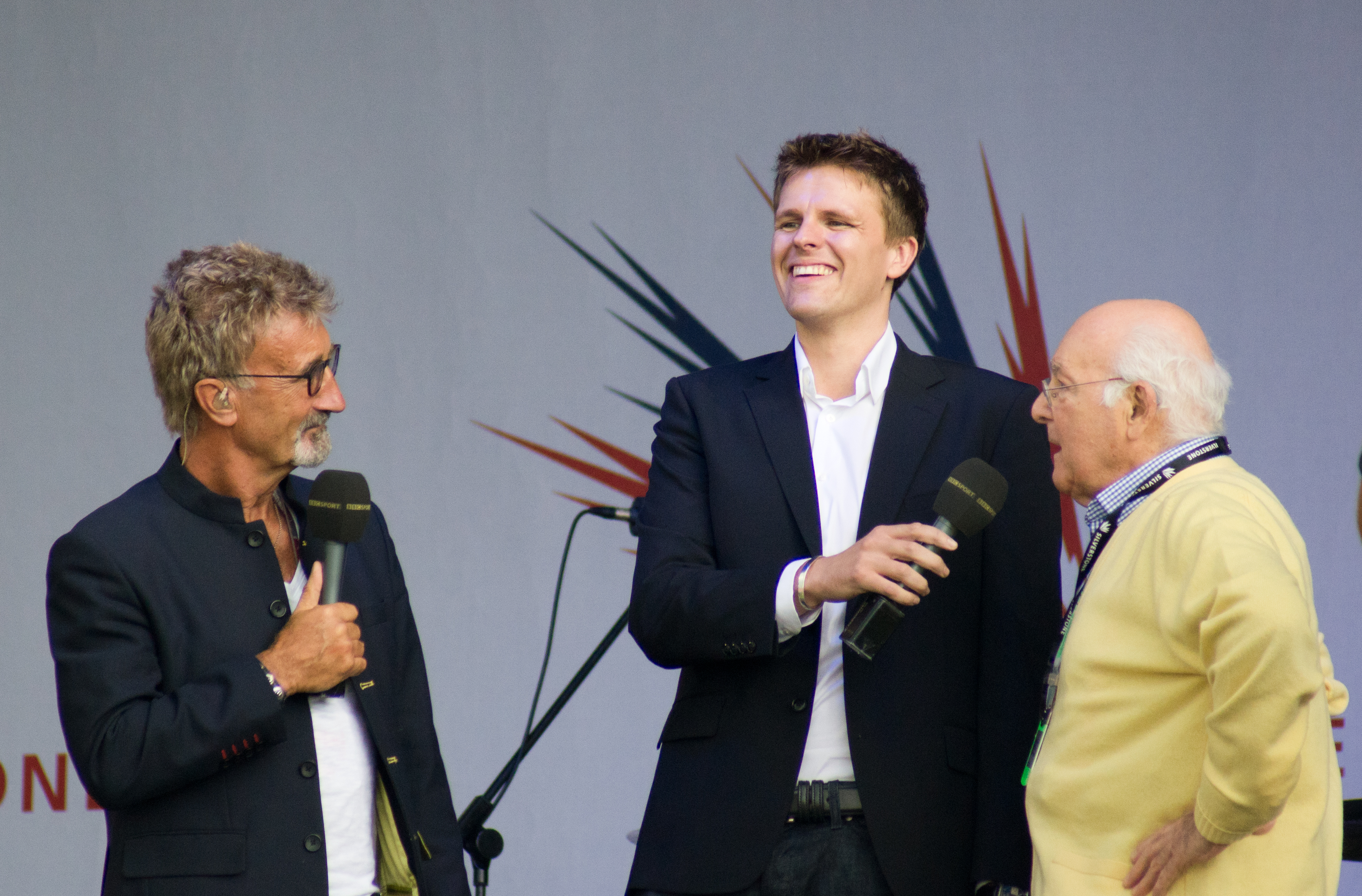 Eddie Jordan and Jake Humphrey interview retired Formula One commentator Murray Walker